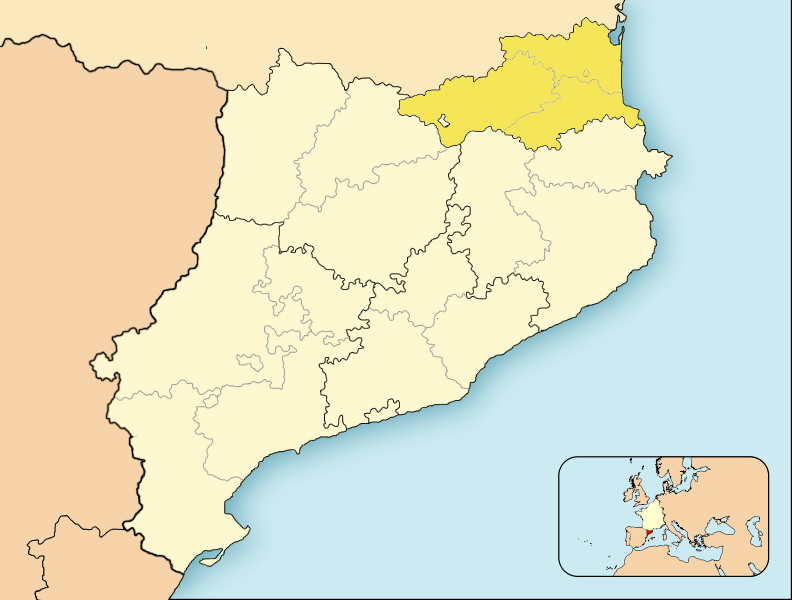 Map of Catalonia (1812-1814) highlighting the Pyrénées-Orientales department of France